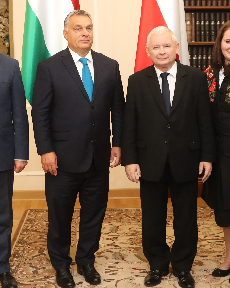 Jarosław Kaczyński and Viktor Orbán.